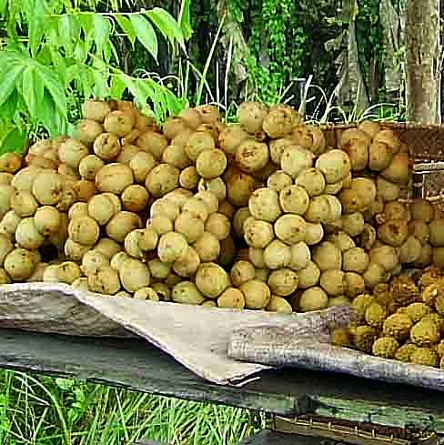 Langsat, Lansium domesticum (left) and ihau, Dimocarpus longan (right); sold at streetmarket. Kabupaten Kutai Barat, East Kalimantan, Indonesia.